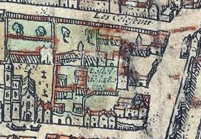 Hôtel de la Reine on the plan of Braun and Hogenberg (c.1530, published in 1572, edition of 1593).